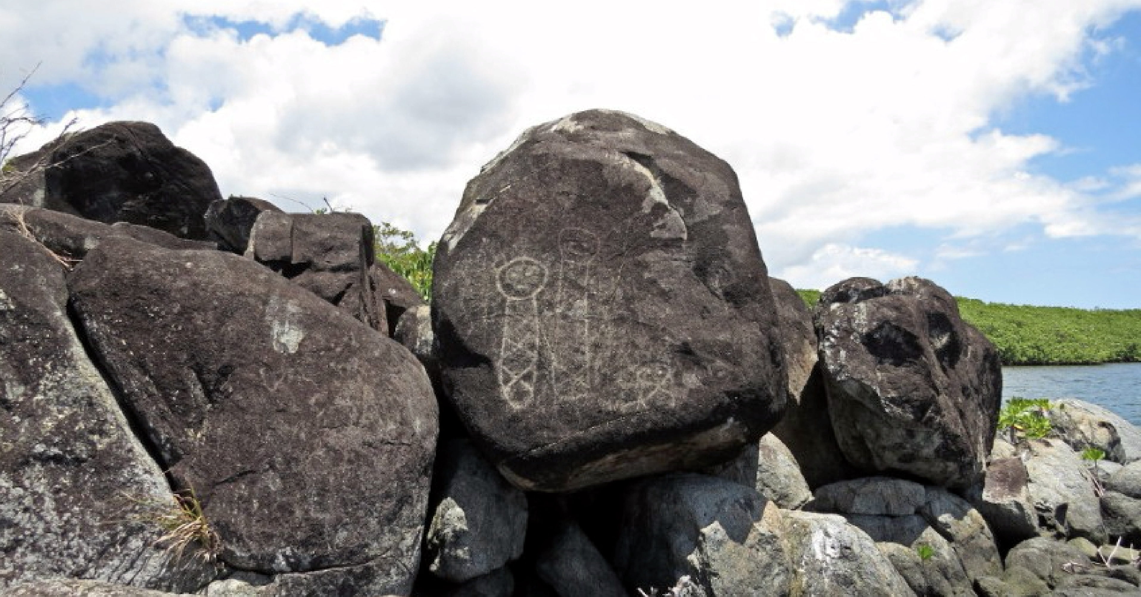 This is an image of a petroglyph, or rock carving in Ceiba, Puerto Rico. It sits beside the shore of Ensenada Honda (Deep Cove).